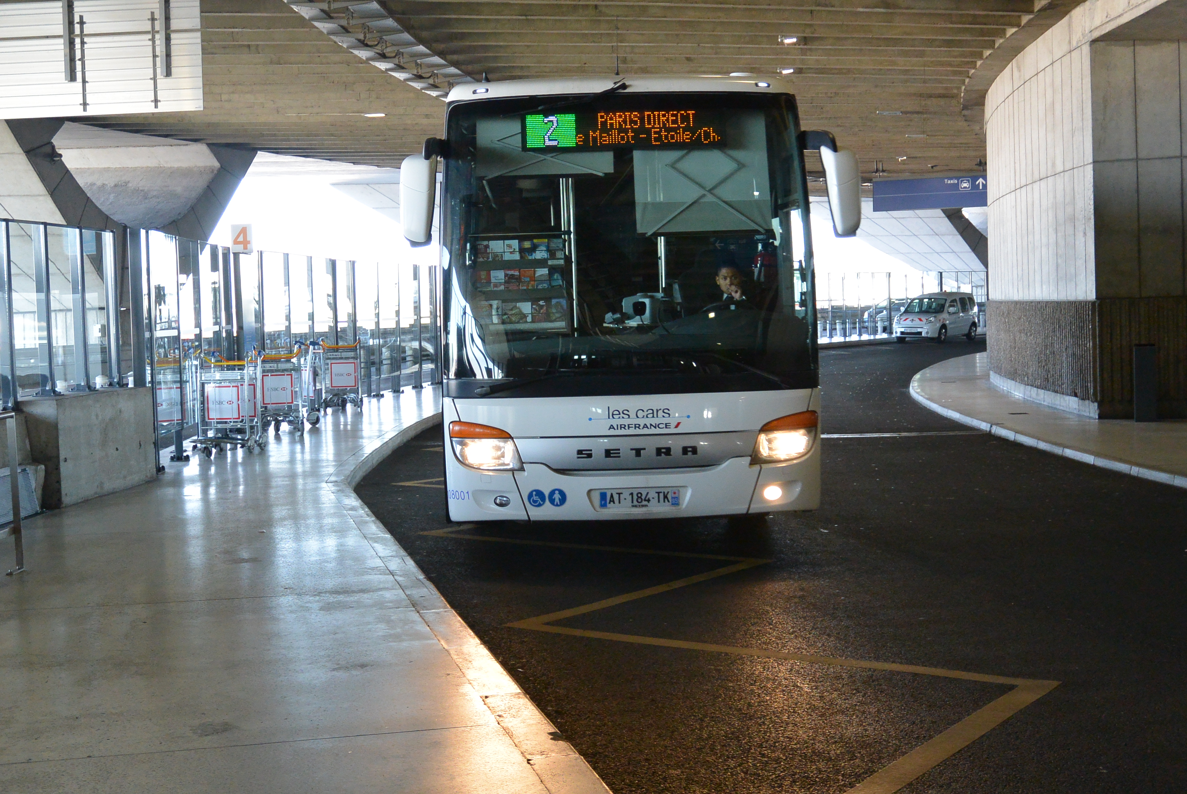 Les Cars Air France at Paris-Charles de Gaulle Airport 21-08-2013 01